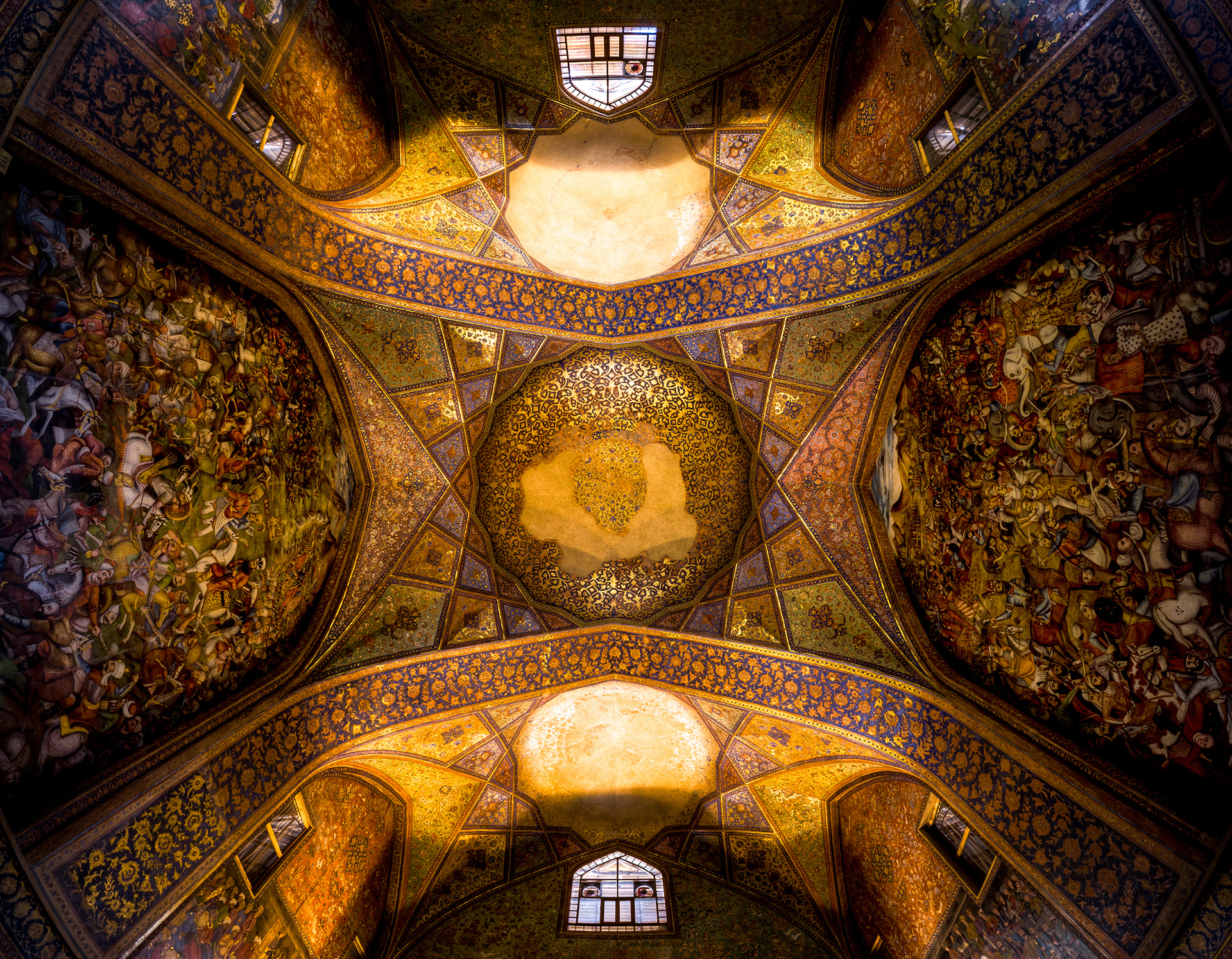 Chehel Sotoun, a pavilion in the middle of a Persian garden in Isfahan. The monument was built by Shah Abbas II to be used for his entertainment and receptions. This Image is showing the Ceiling of it's main hall.